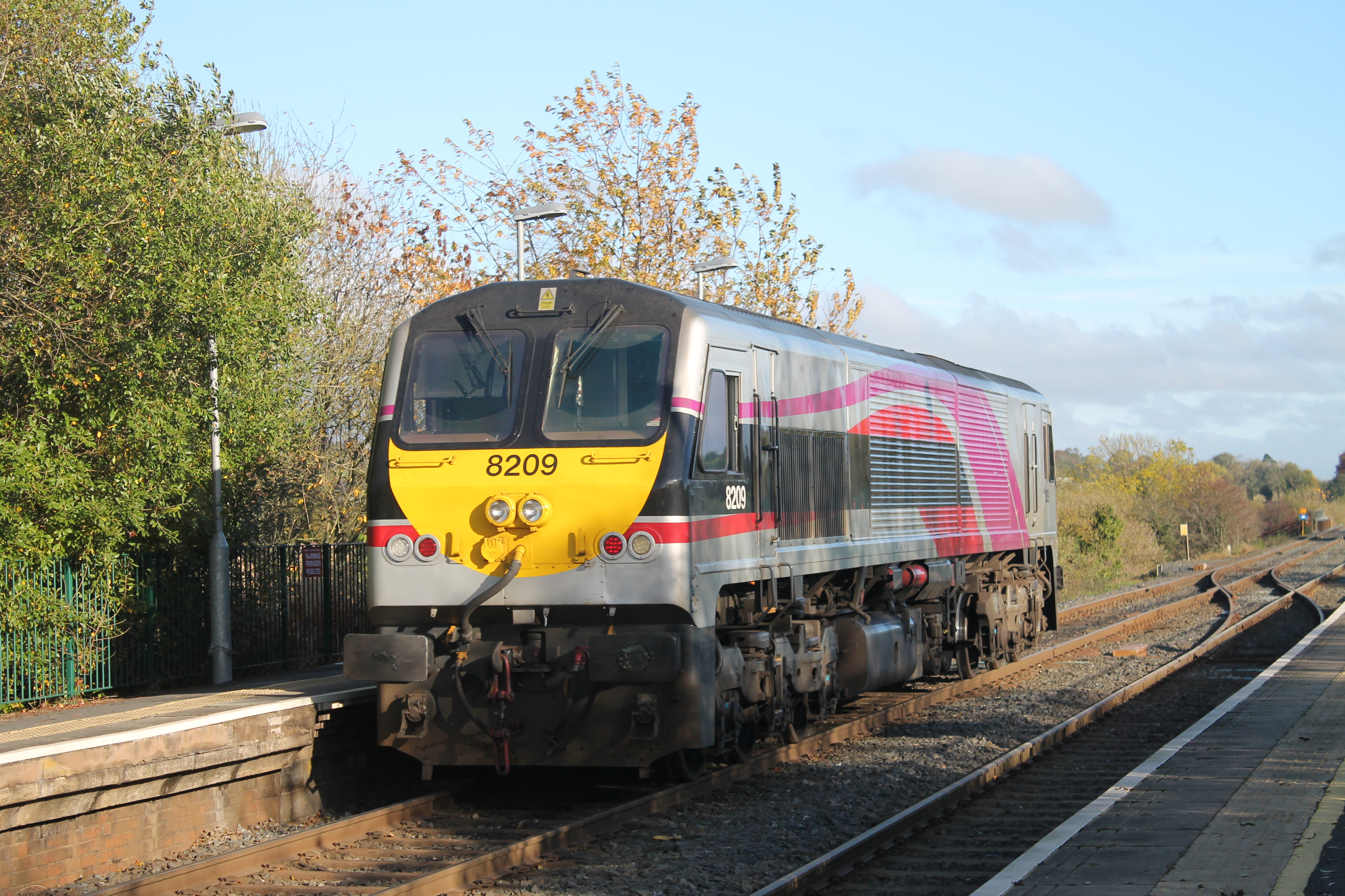 209 Passes through Moira, carrying the new Enterprise livery